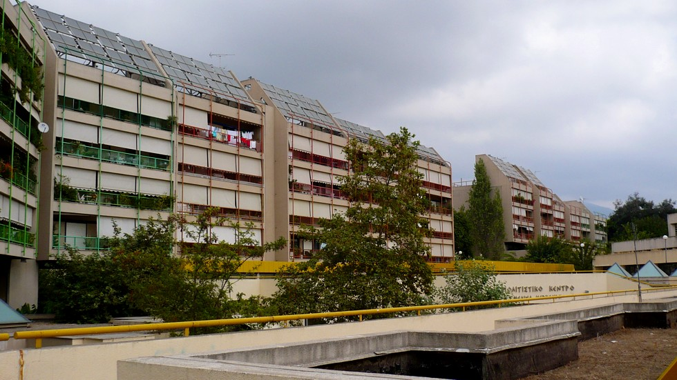 Iliako Chorio at Ano Pefki (Village of the Sun): Working Class Apartment Blocks and Cultural Center of Ano Pefki.